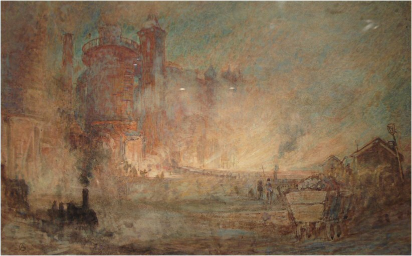 Painting of the Bell Brothers Ironworks at Port Clarence, Middlesbrough by Albert Goodwin (1845-1932).